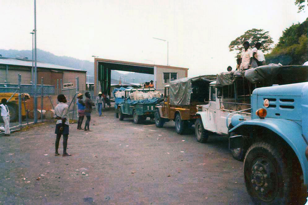 Buin and Siwai villagers delivering cocoa to Arawa port 1978 Other information Photo taken by me